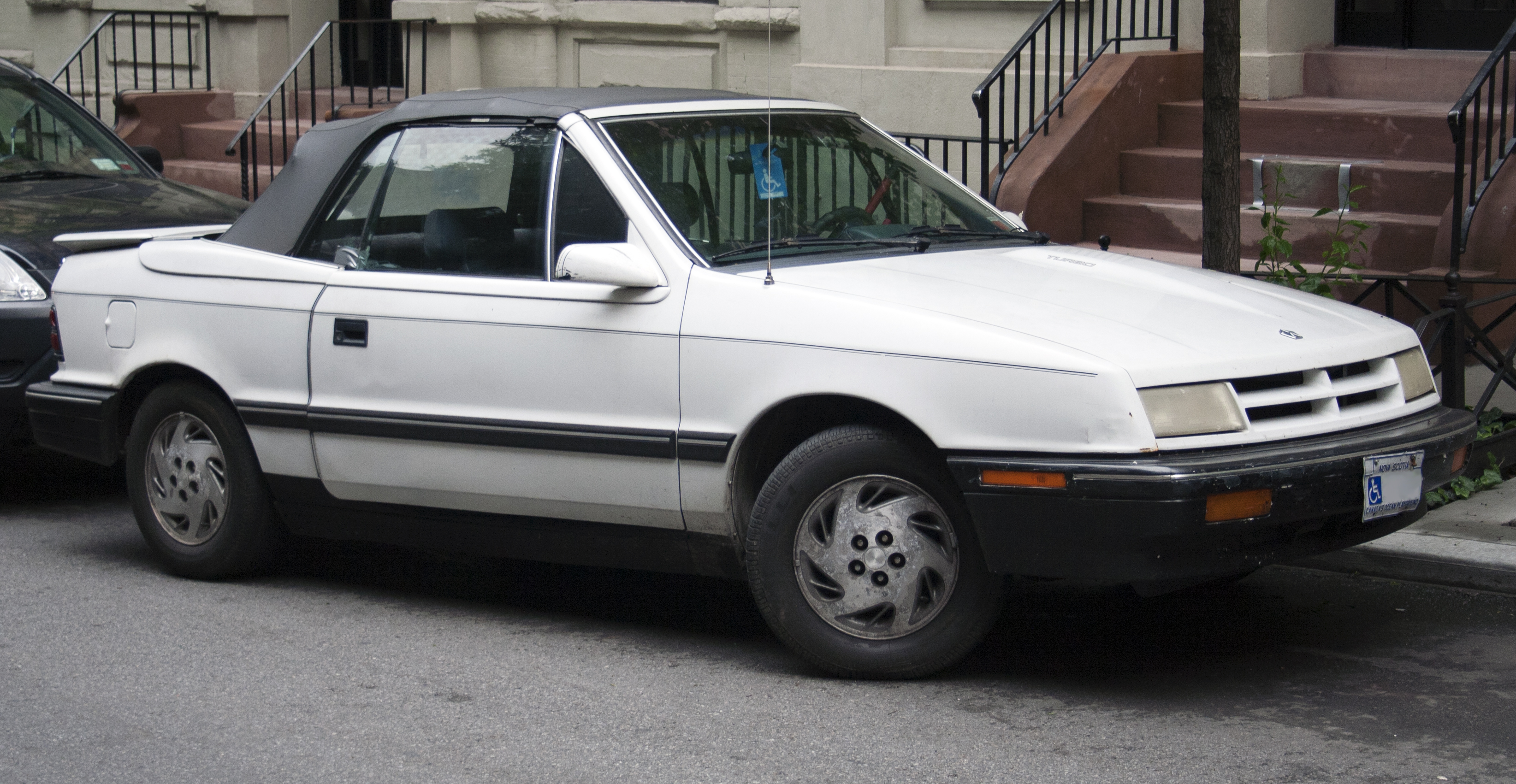 A 1991 (Mexican-built) Dodge Shadow Highline Turbo Convertible.